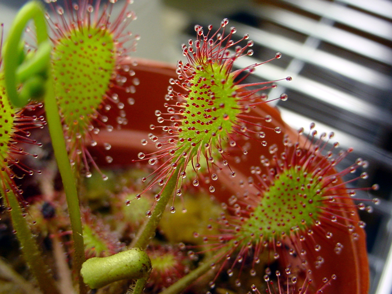 Sundew cultivar 'Ivan's Paddle' created by Ivan Snyder. Macro picture taken by Christopher Hind. (myself) Released to the Public Domain.